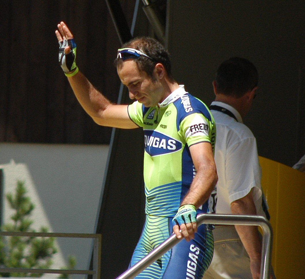 Murilo Fischer at the start of stage 8 in Le Grand Bornand, Tour de France 2007.